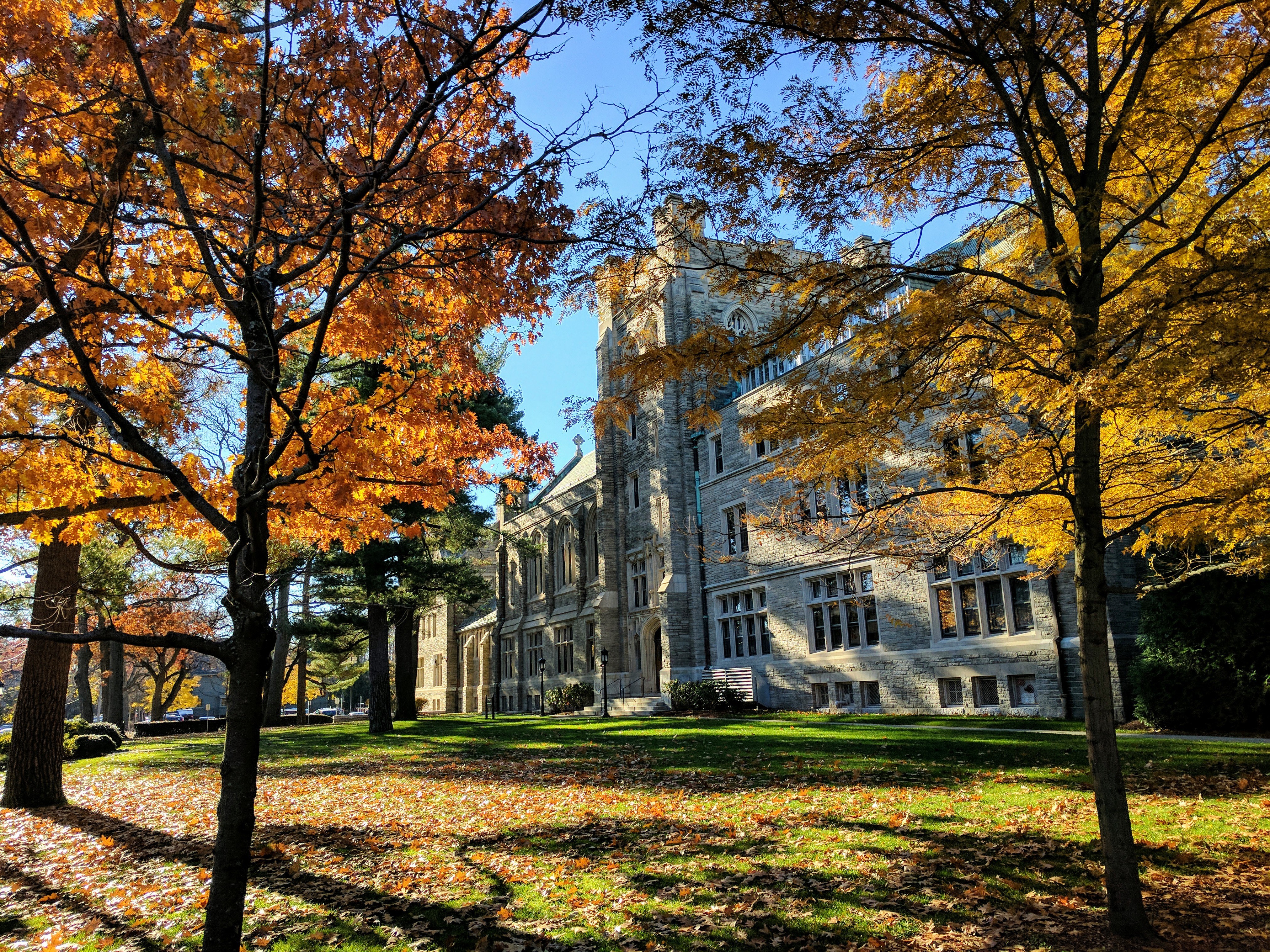 Andover Hall (Harvard Divinity School)